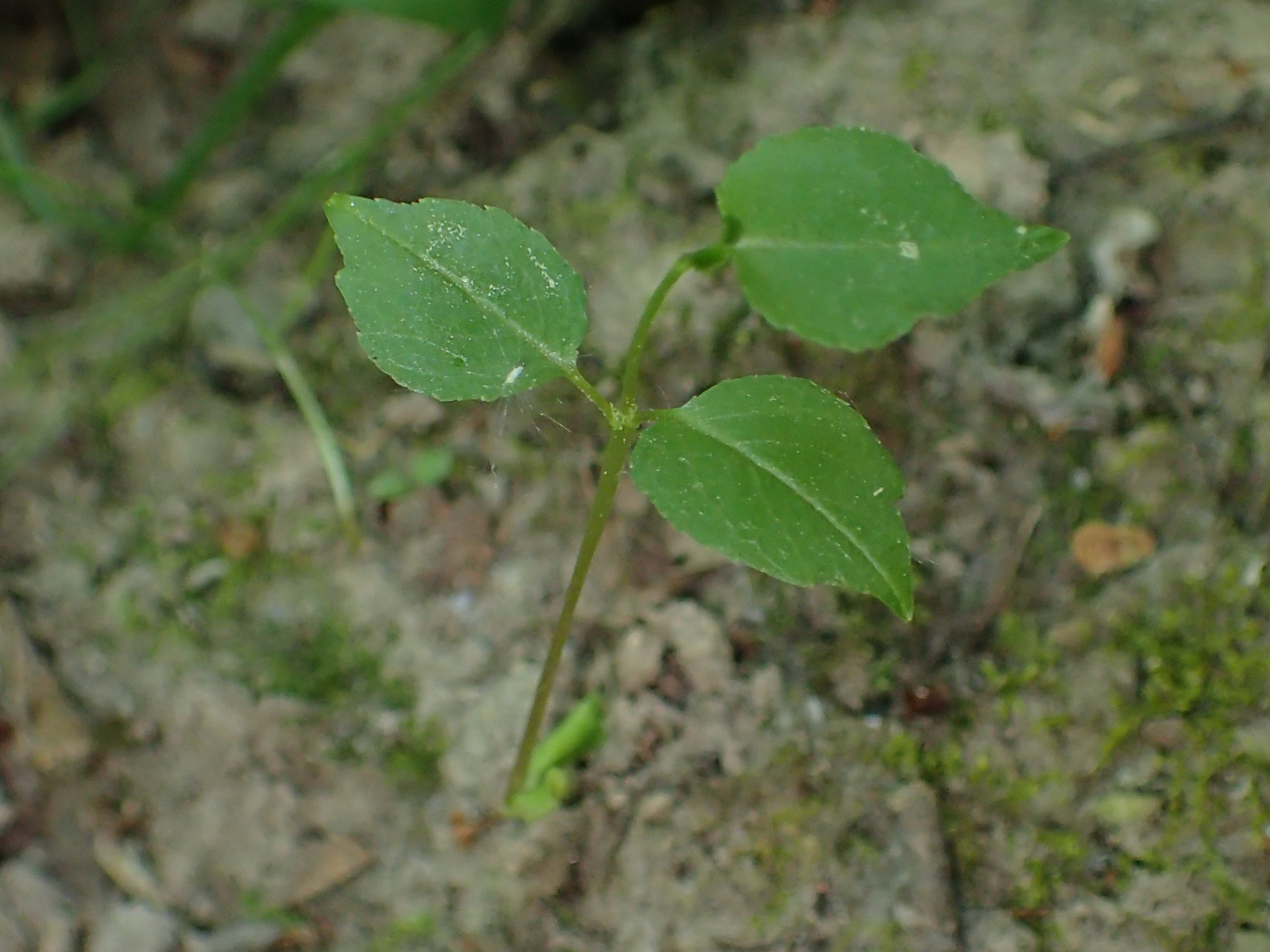 Prunus spinosa seedling in Grzeziniec Valley in Szczecin, NW Poland